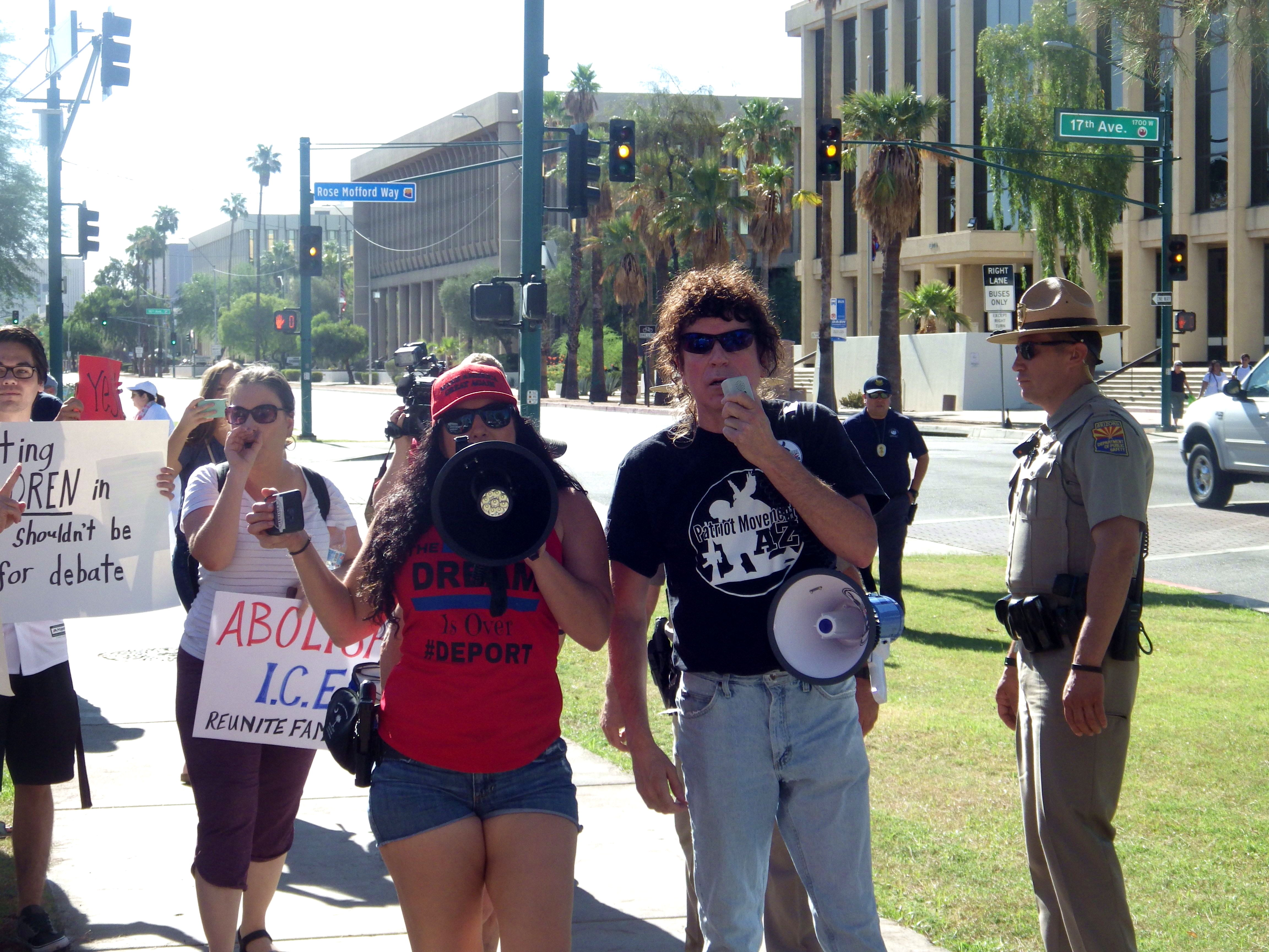 Counter demonstrators, Phoenix AZ, USA, June 30, 2018